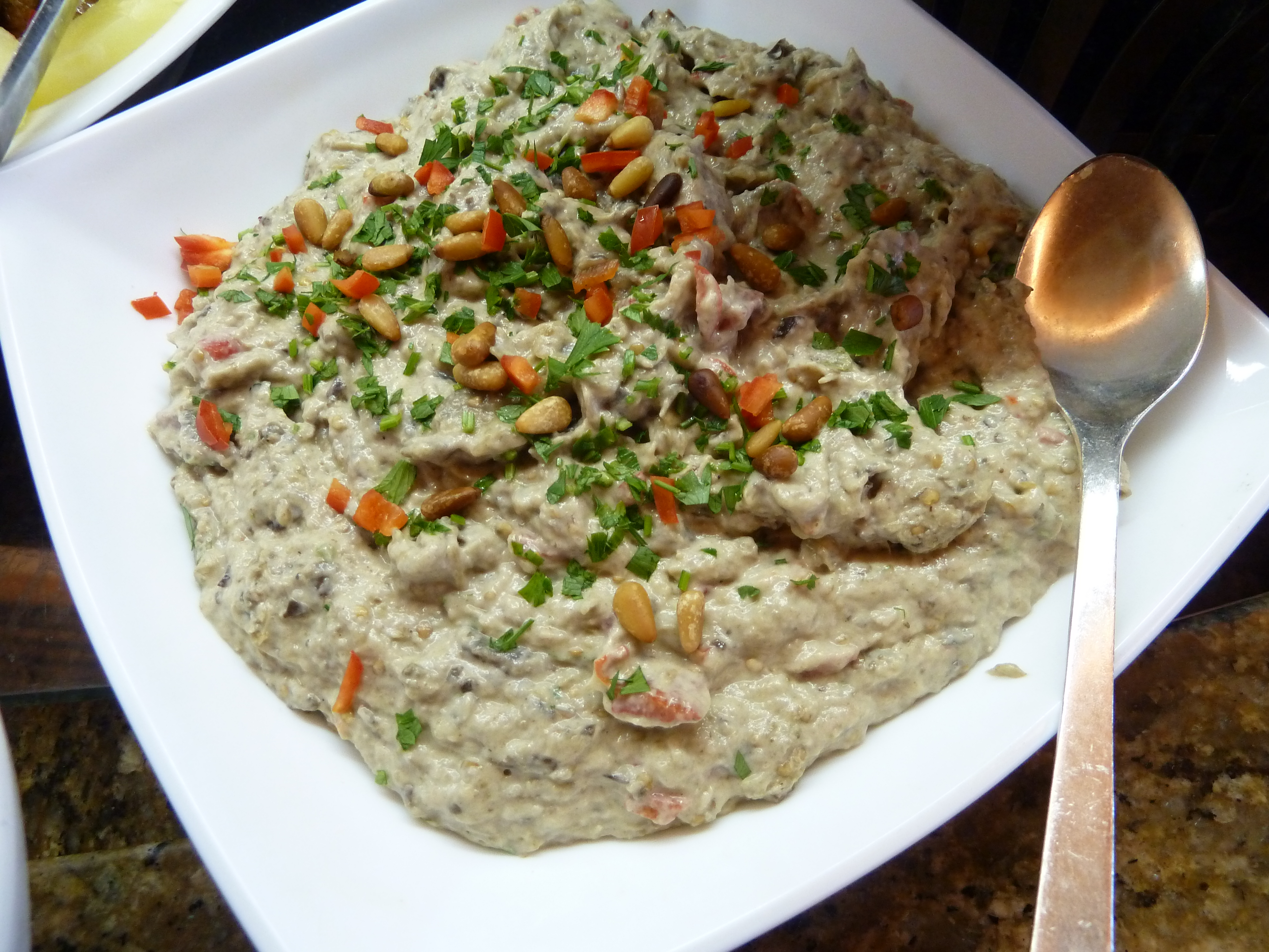 Baba ghanoush with mayonnaise. Served during lunch in the Hilton Tel Aviv. Sometimes called "Israeli eggplant salad" in Israel, and known as "Bhaingan Bhartha" in India's Punjab region, it is a common dish in Syria, Lebanon, Egypt and Turkey.